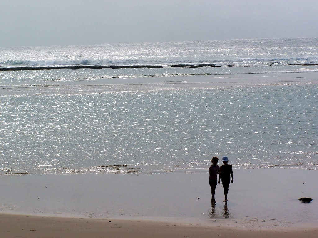 Perfect day